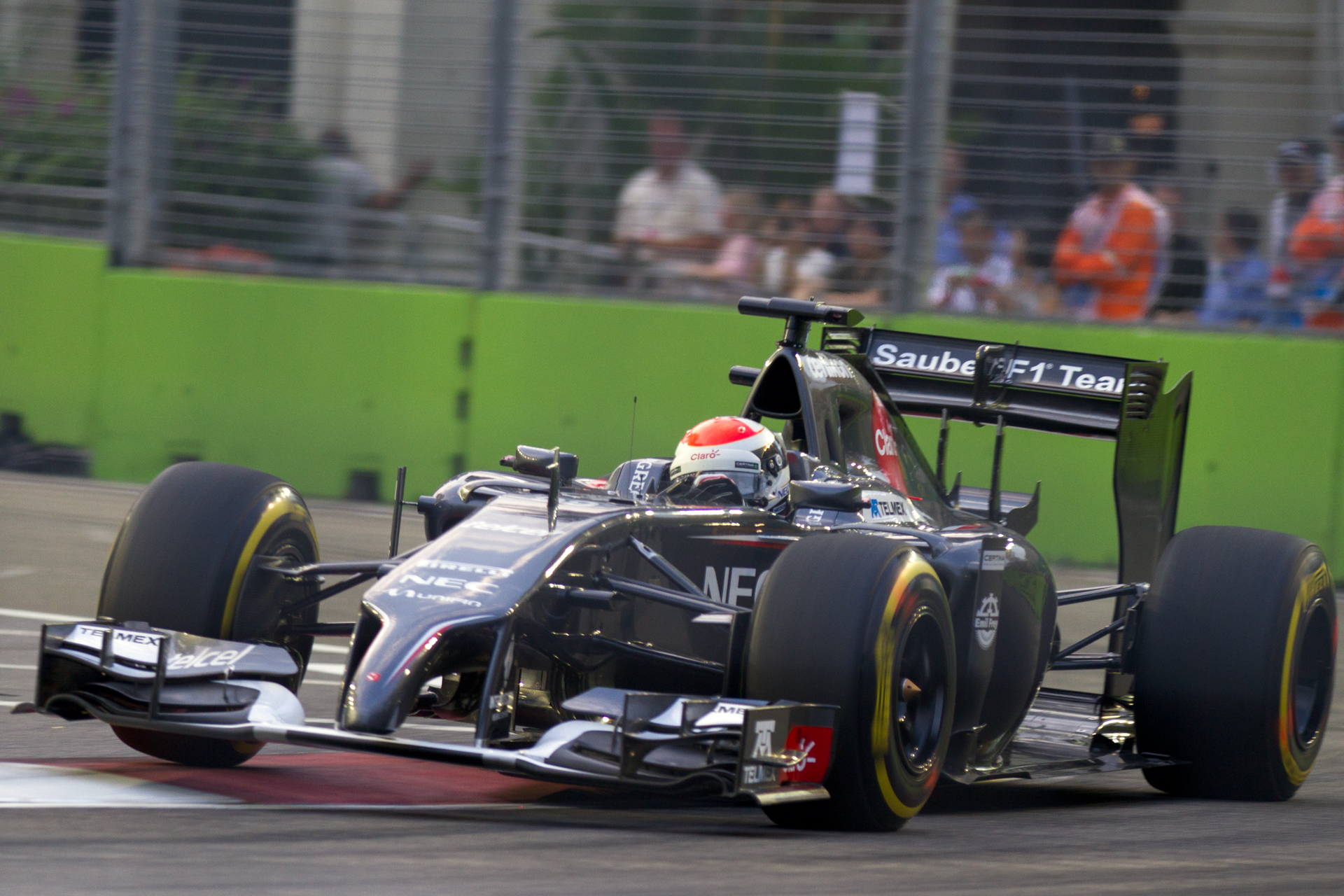 Formula One 2014 Rd.14 Singapore GP: Adrial Sutil (Sauber)